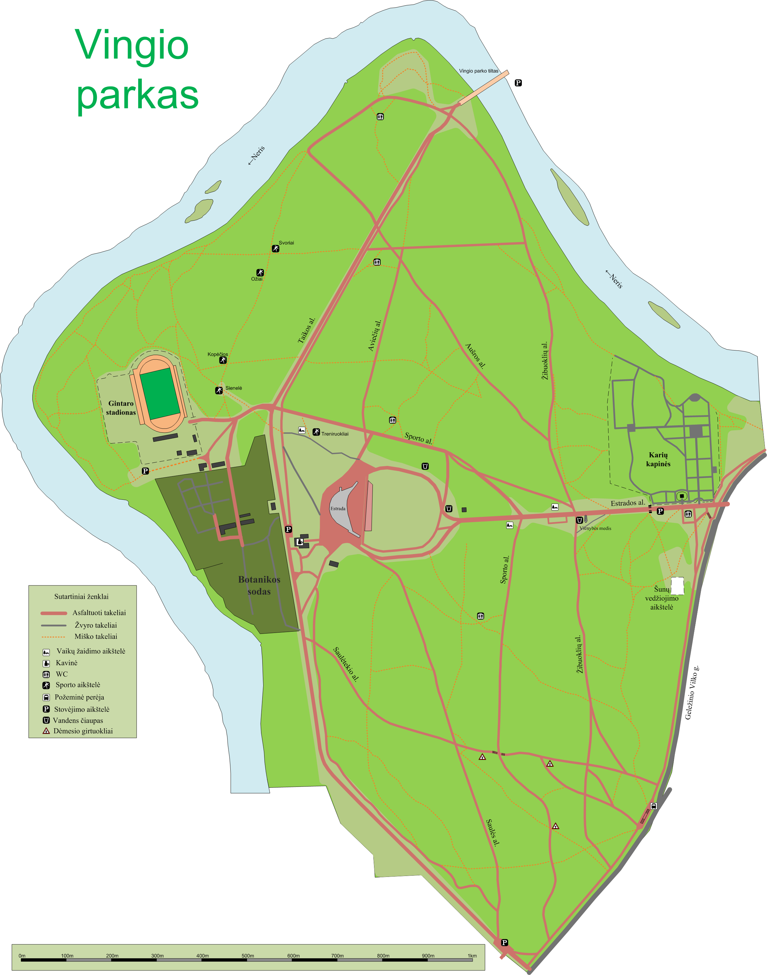 Vingis Park — the largest park in Vilnius, Lithuania. Plan of major paths and objects map. There will be additions to map later.